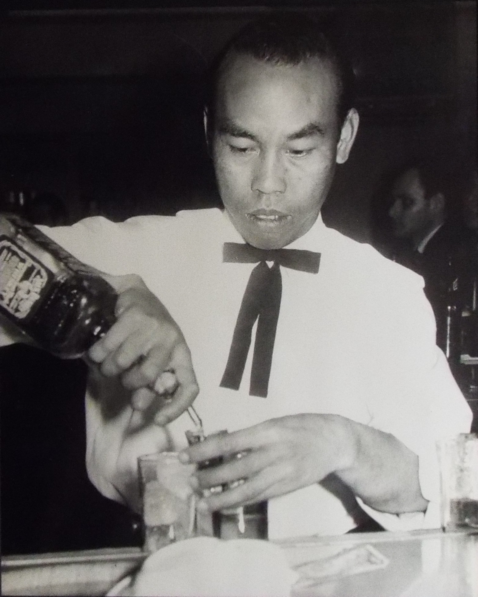 Picture of a bartender in the Mystery Room Passageway in the Arizona Biltmore Hotel